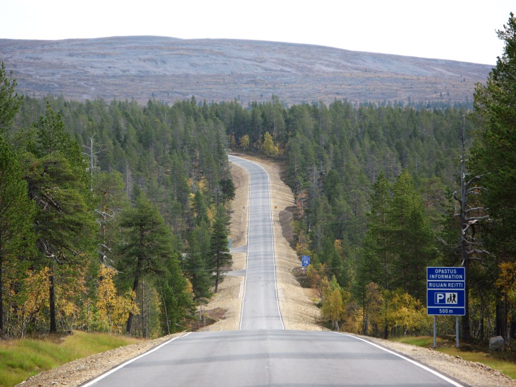 Road to Kiilopää (connecting road 9695) in Inari/Sodankylä communities in Northern Finland